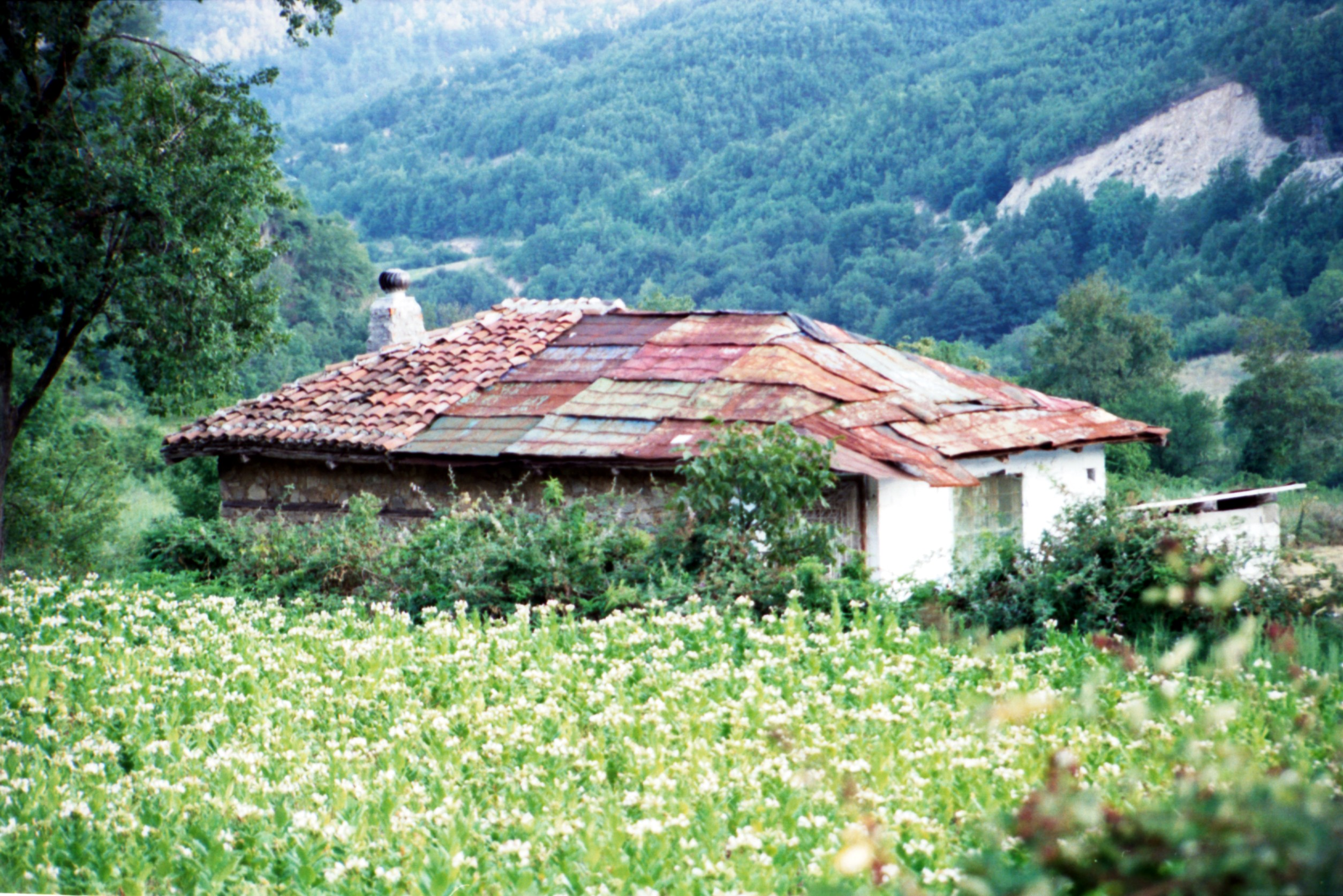 Hut (or maybe house?) in the mountains of Xanthi, Thrace, Greece.